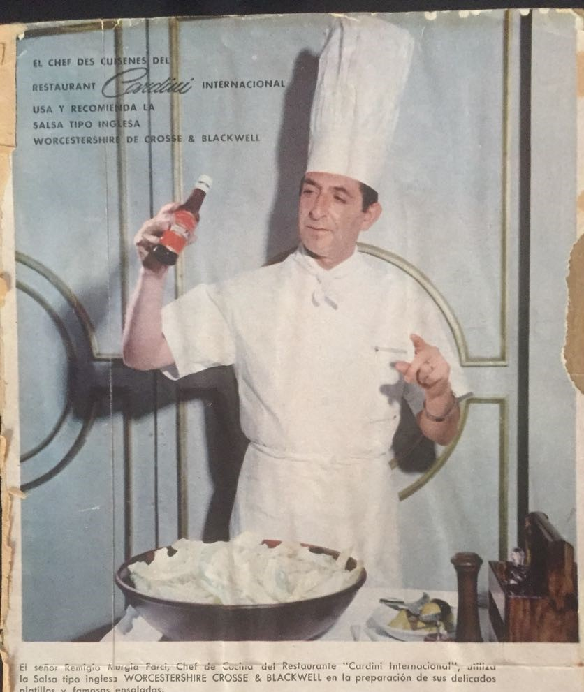 Remigio Murgia, Cesar Salad creator